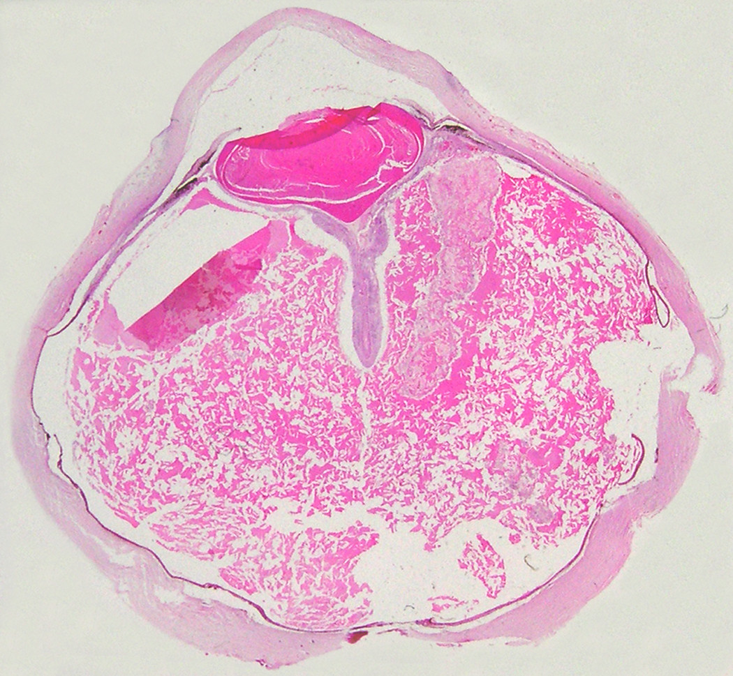 Coats' disease: histopathological findings. Total exsudative retinal detachment (H&E).